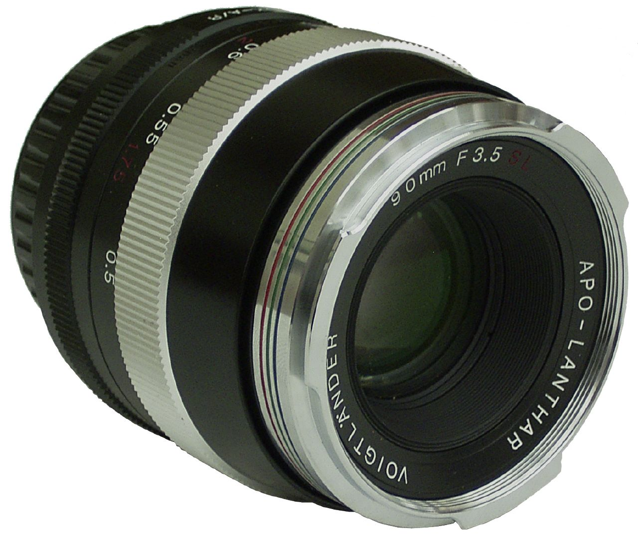 Cosina / Voigtländer Apo-Lanthar f3,5/90mm lens. Not the famous Lens of the 1950s made in Braunschweig, Germany - but made much later by Cosina, Japan.